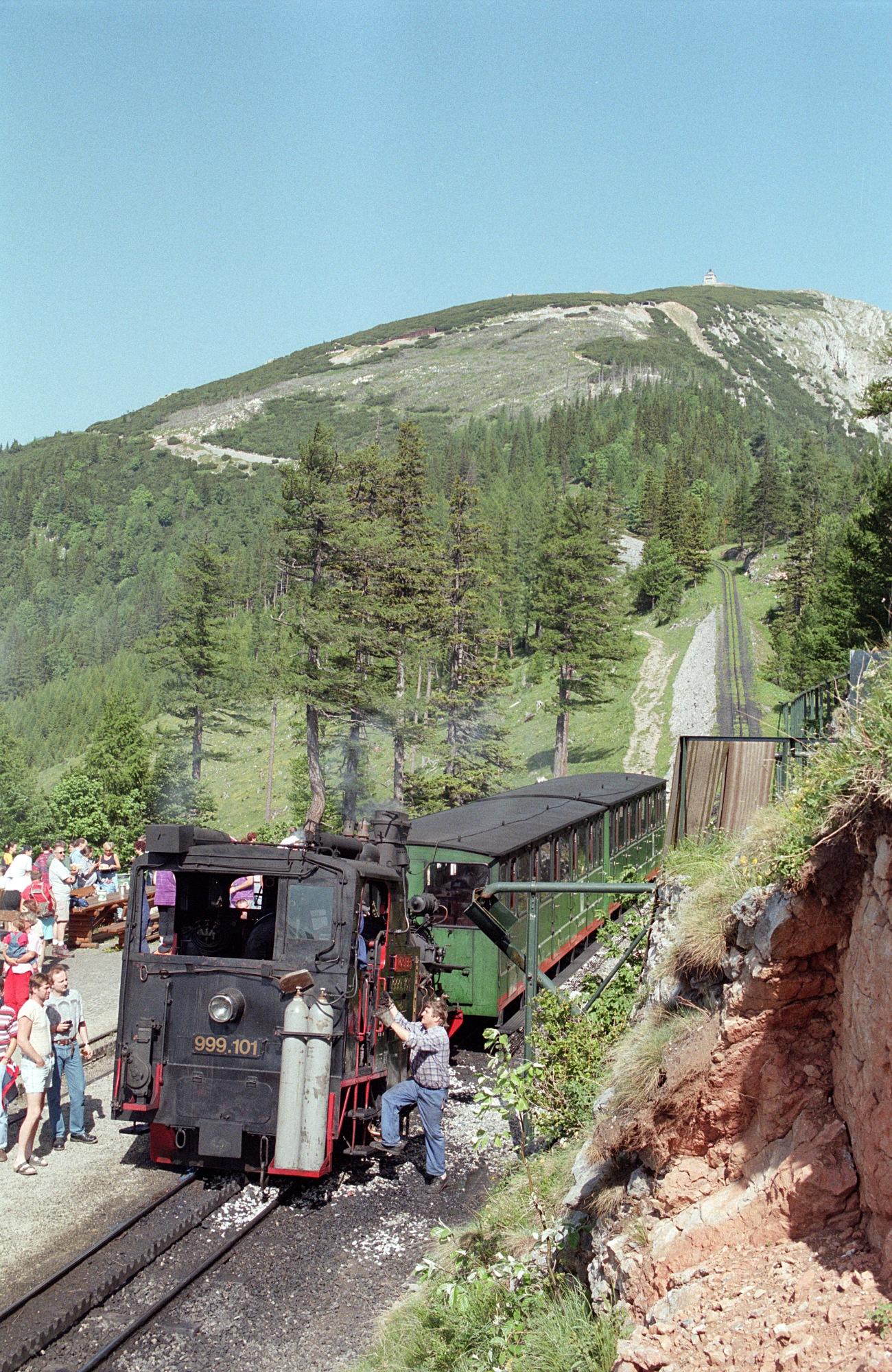 Train with 999.101 in Baumgartner station. The engine is taking water for the final stretch of line up to the summit.